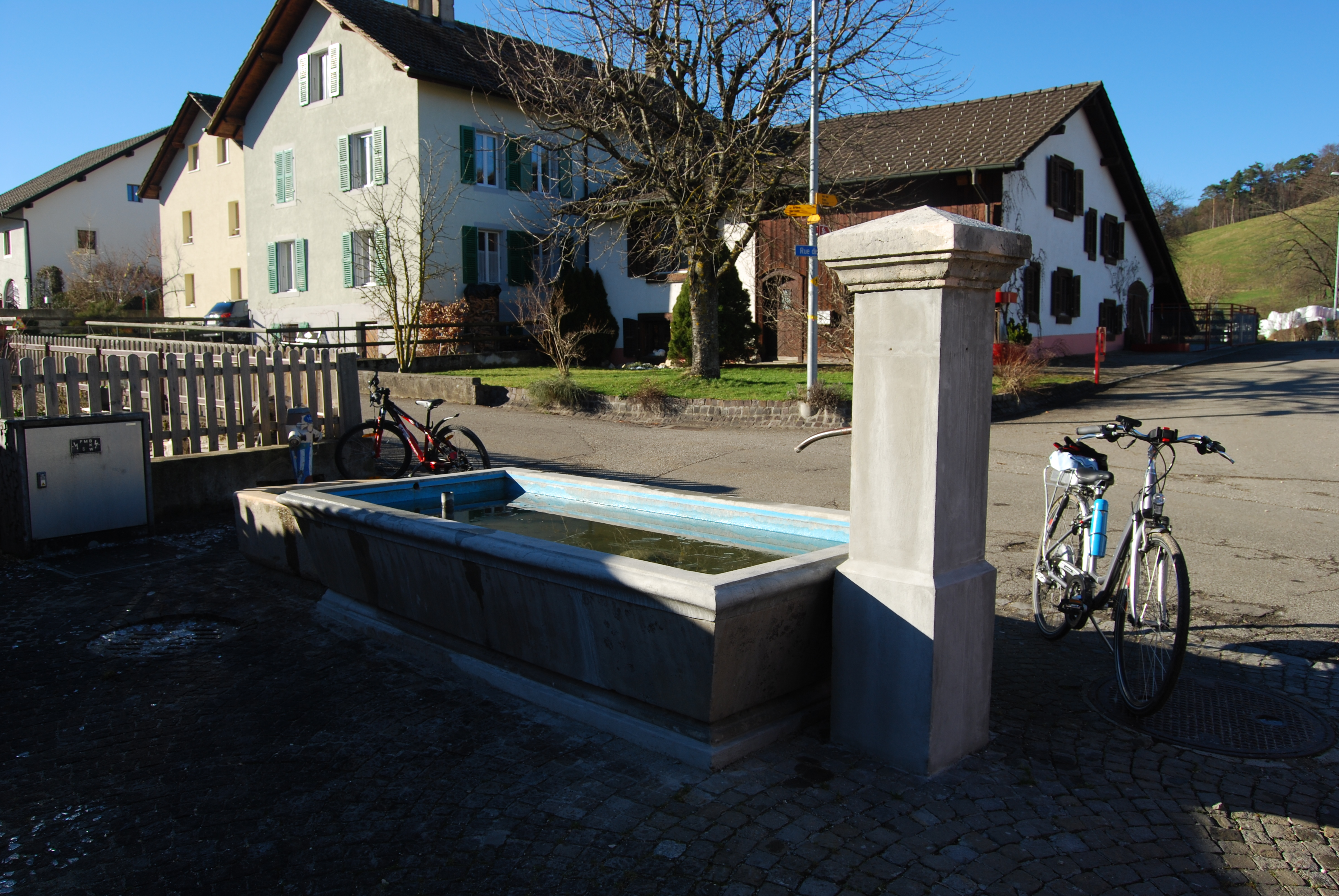 Village fountain at Rebeuvelier, canton of Jura, SwitzerlandEsperanto: Vilaĝa puto en Rebeuvelier, Kantono Ĵuraso, Svislando